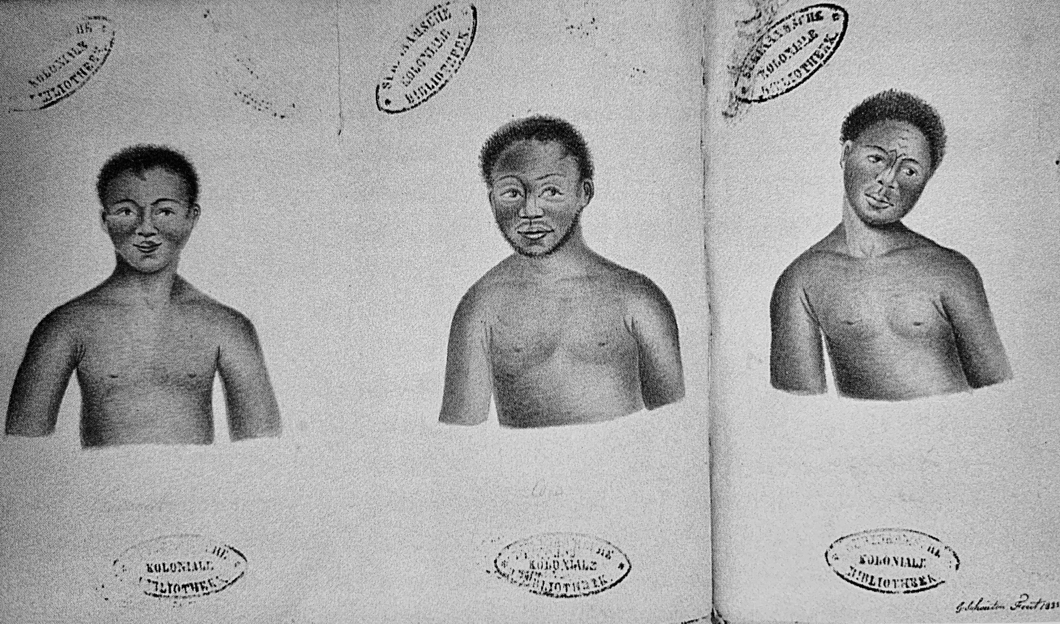 These are the portraits of Cojo (Kodjo), Mentor and Present. These three men were convicted for the great city fire of Paramaribo (1832). The fire destroyed in a short time about 50 houses and the Lutheran church. The drawing was made by the Surinamese artist Gerrit Schouten on January 24, 1833 and was later found among the papers of the President of the Court of Justice, judge Adriaan François Lammens.